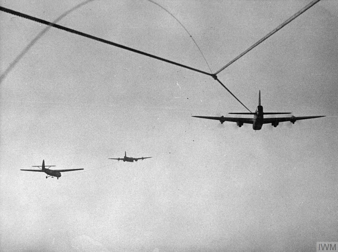 Short Stirlings tow Airspeed Horsas carrying the 6th Airborne Division toward the Rhine landing zones.